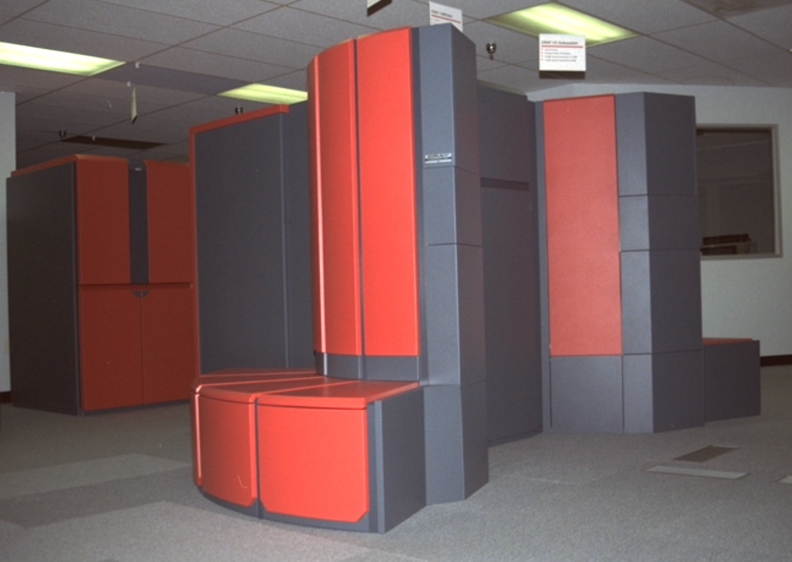 Cray Y-MP supercomputer at NASA/GSFC (NCCS branch).